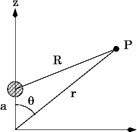 Diagram of point axial multipole made with Xfig.